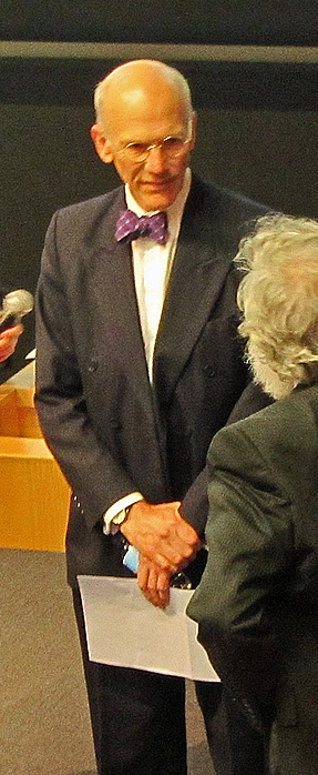 Donald Hector at the Low Carbon Technologies II talk, University of Sydney (Liversidge lecture)